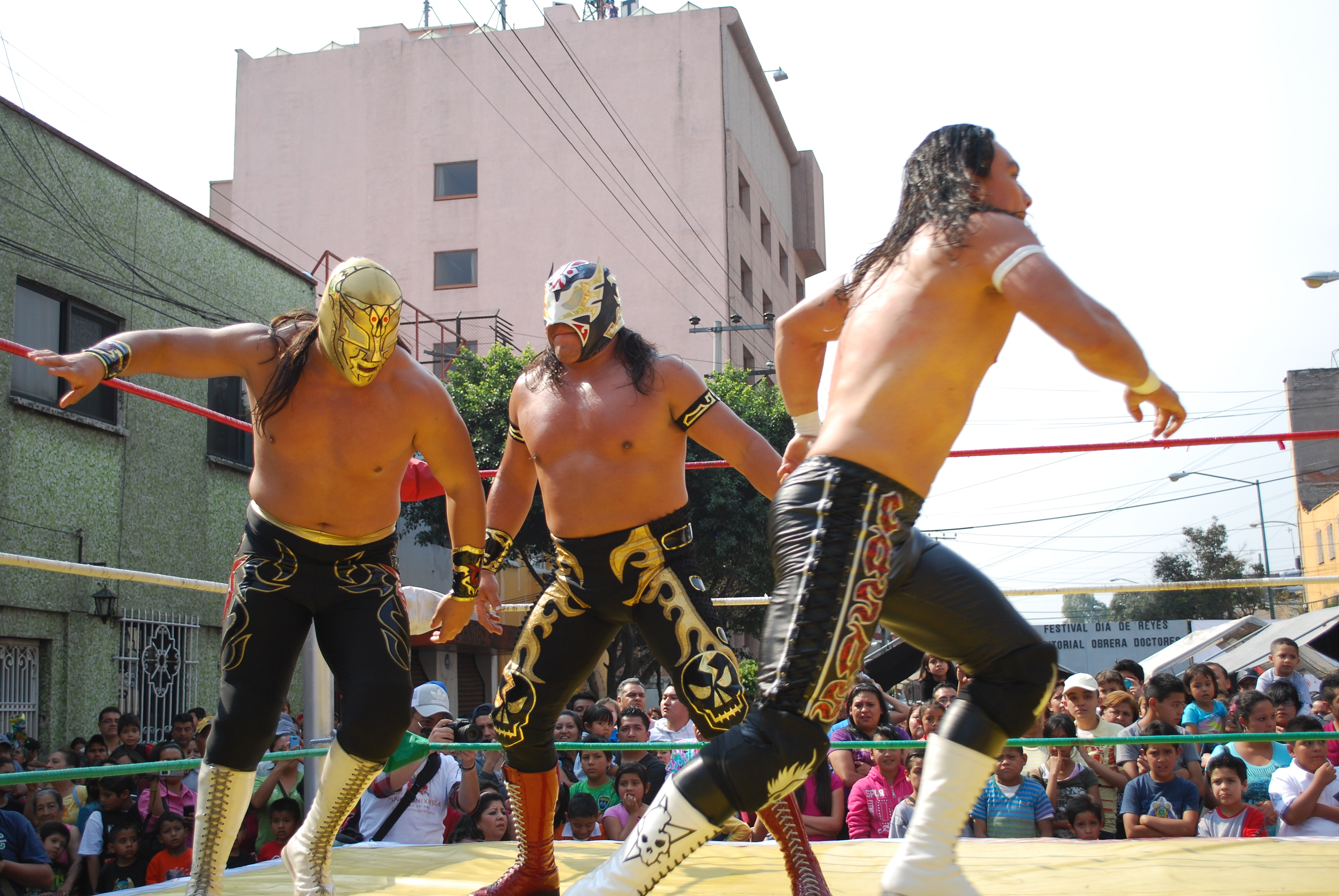 Ultimo Guerrero and Canelo Casas at the last match at a CMLL lucha libre event part of Festival Día de Reyes Territorial Obrera Doctores in Mexico City